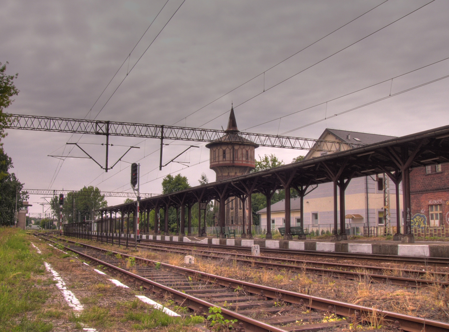 Train station in Ostrzeszów